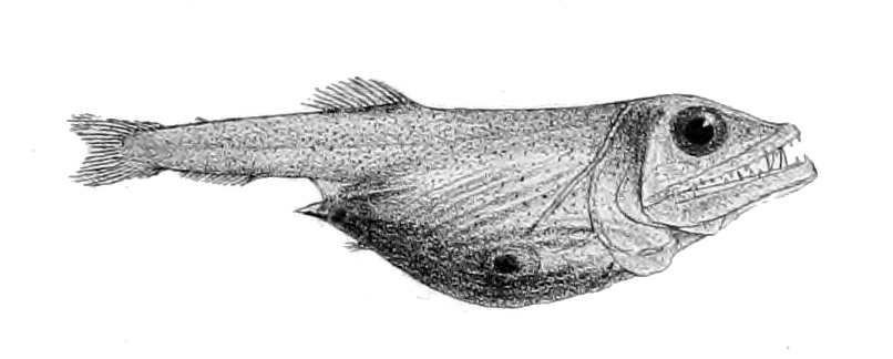 Omosudis lowii